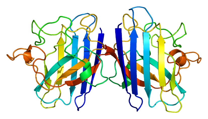 Structure of the SOD1 protein. Based on PyMOL rendering of PDB 1azv.